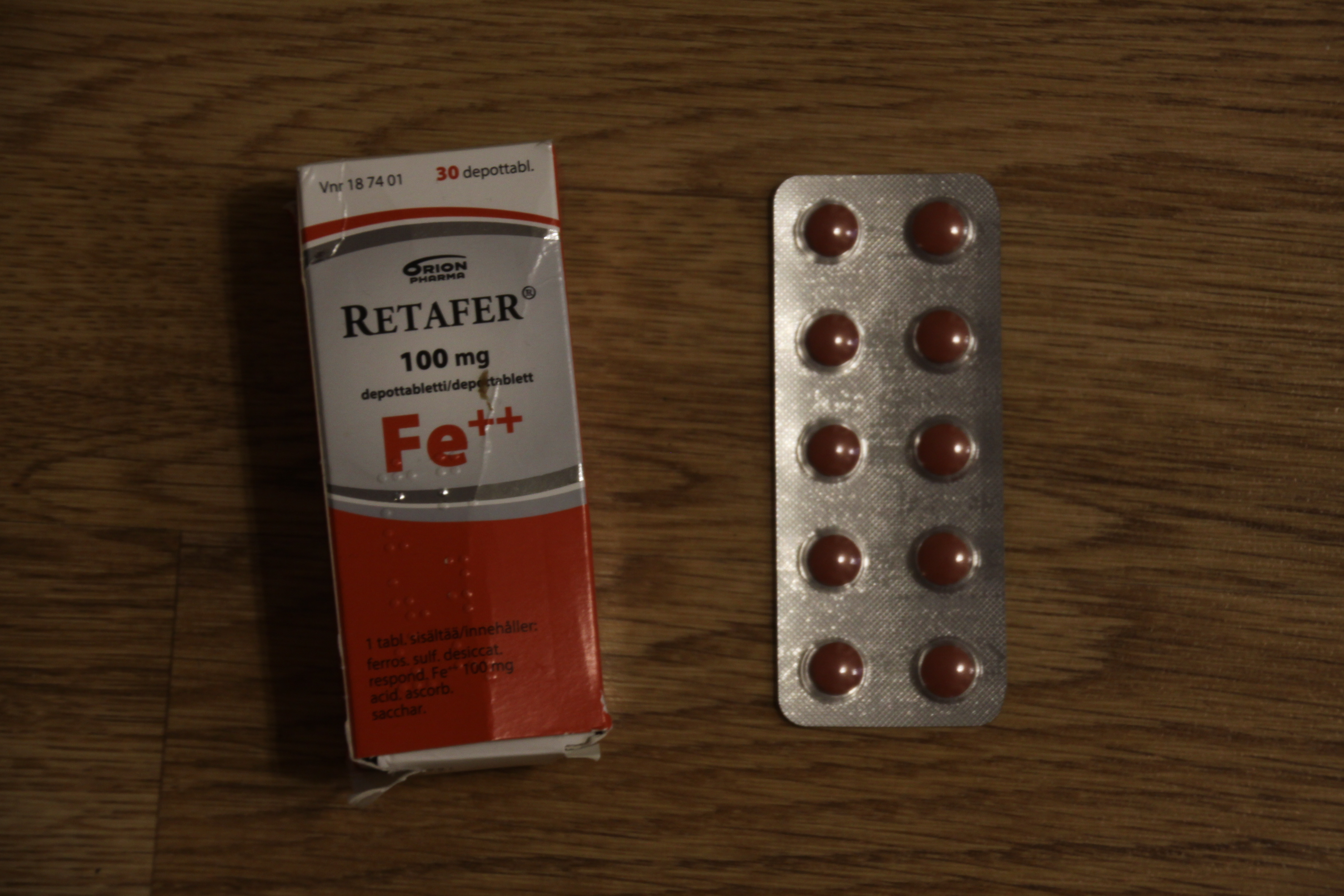 Retafer Fe++ 100 mg -for treating and and blocking anemia.